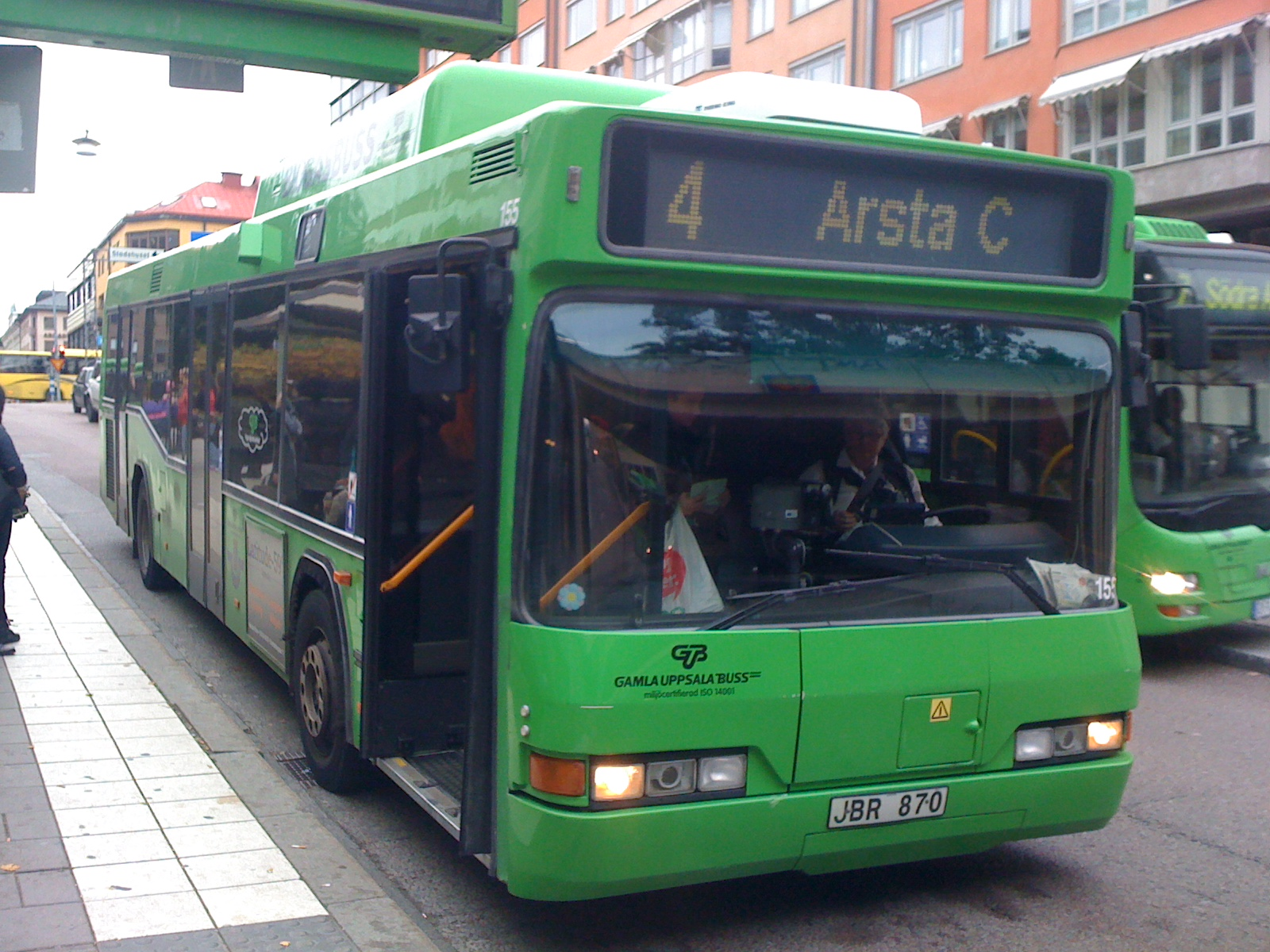 A Neoplan N4016 CNG city bus in Uppsala, Sweden.